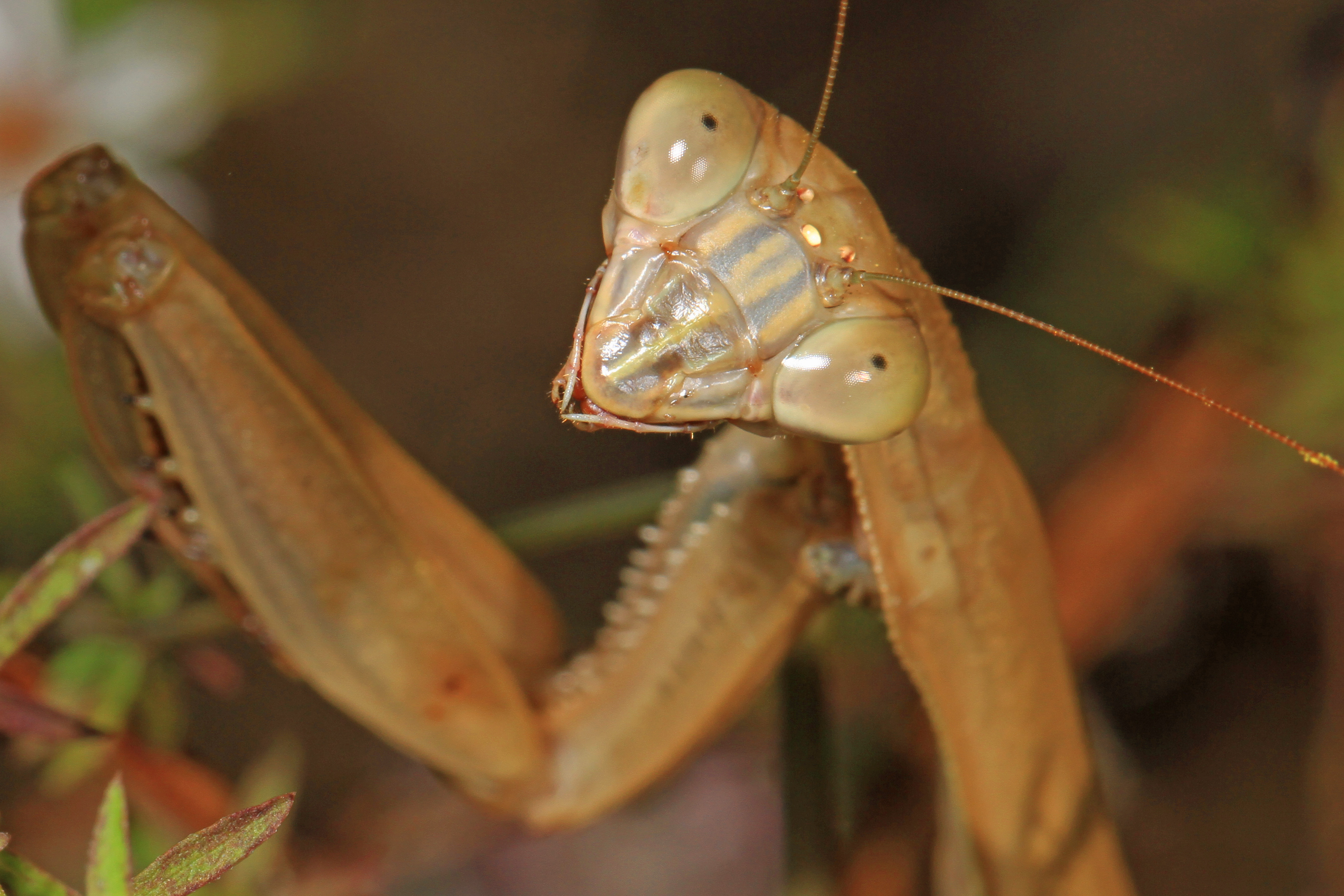 Chinese Mantis - Tenodera sinensis, Mason Neck, Virginai